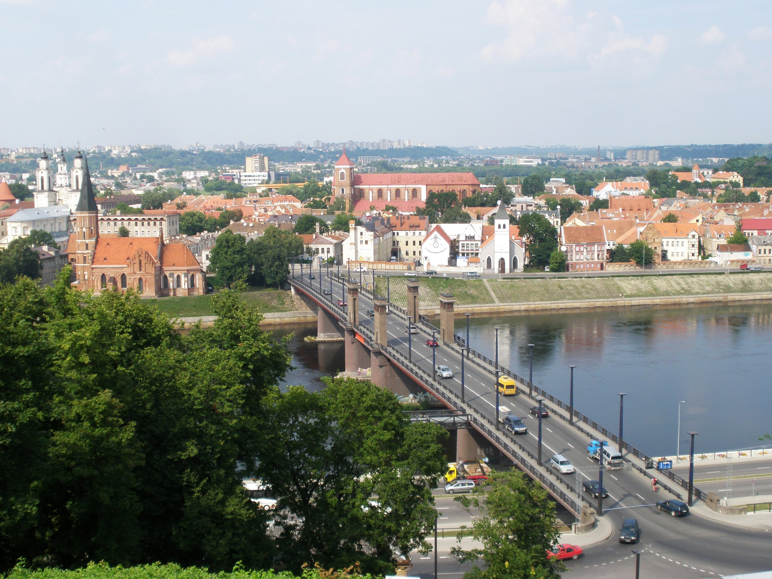 Panorama of Kaunas, Lithuania, in August 2010